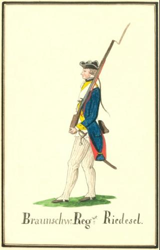 Watercolor of a Soldier from a regiment in the Brunswick Corps during the American Revolutionary War.